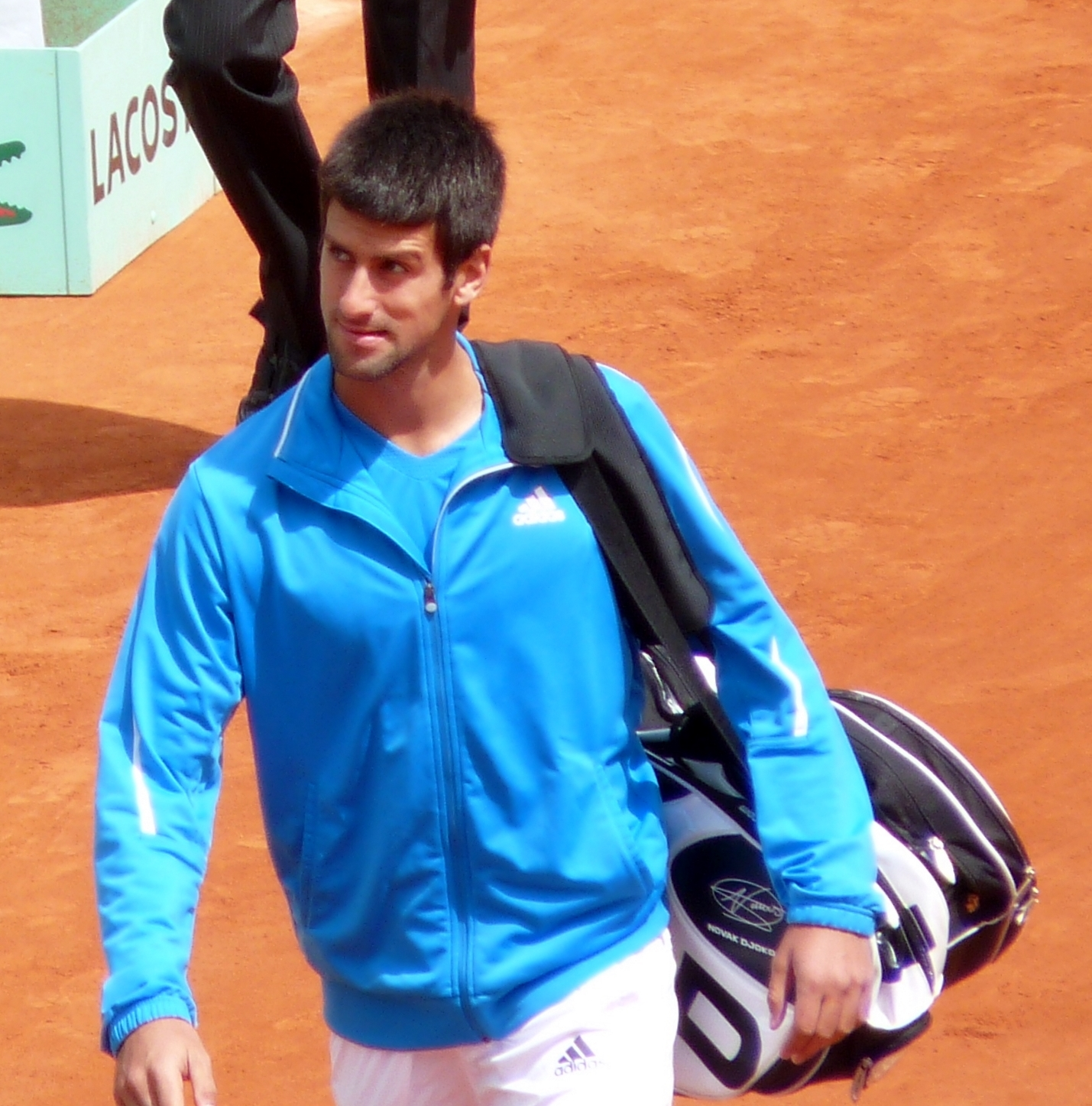 Novak Đoković at 2009 Roland Garros, Paris, France